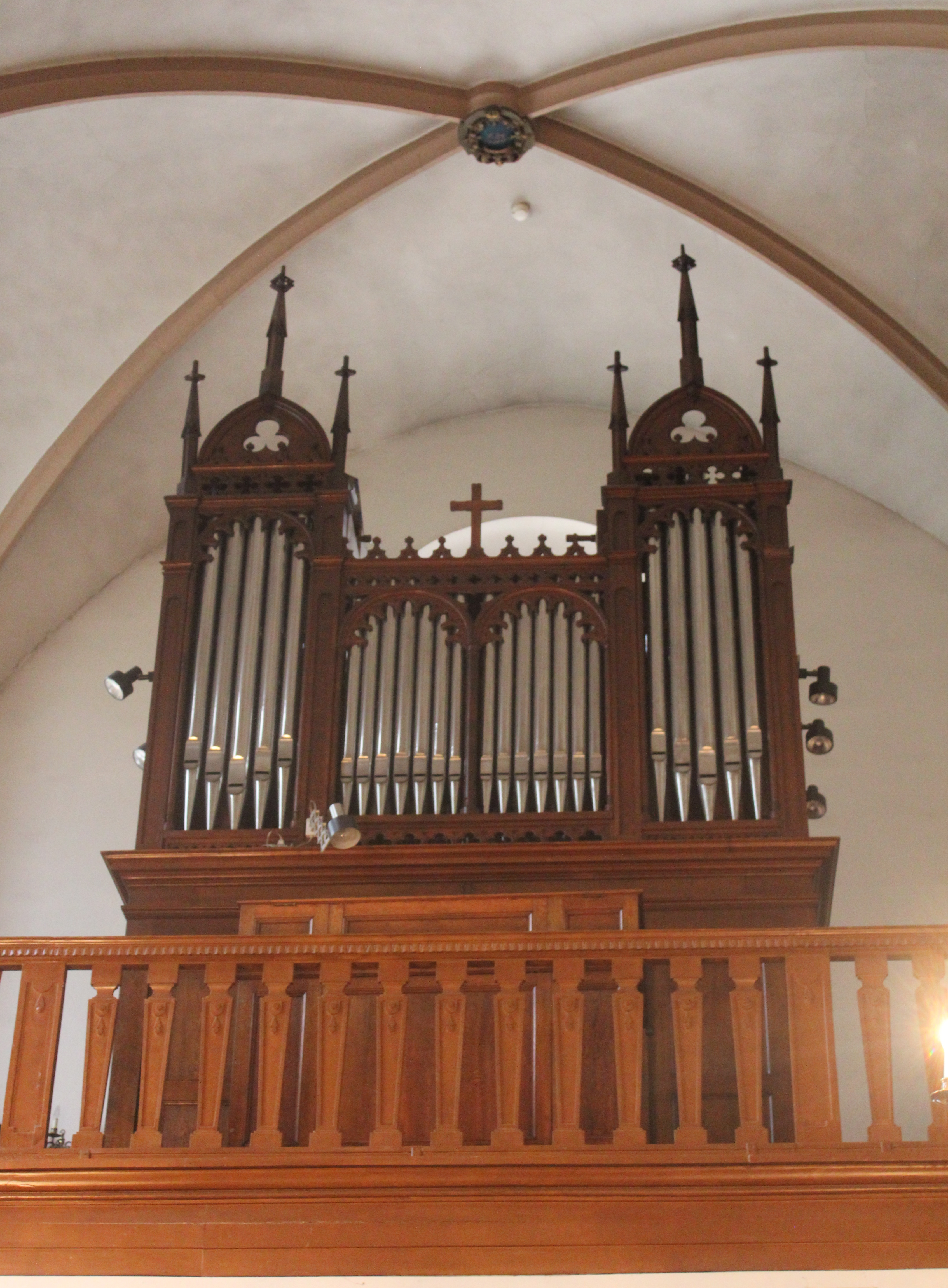 Pipe organ in the church of the Civil Hospice in Pfaffenthal, Luxembourg City; cultural heritage monument.